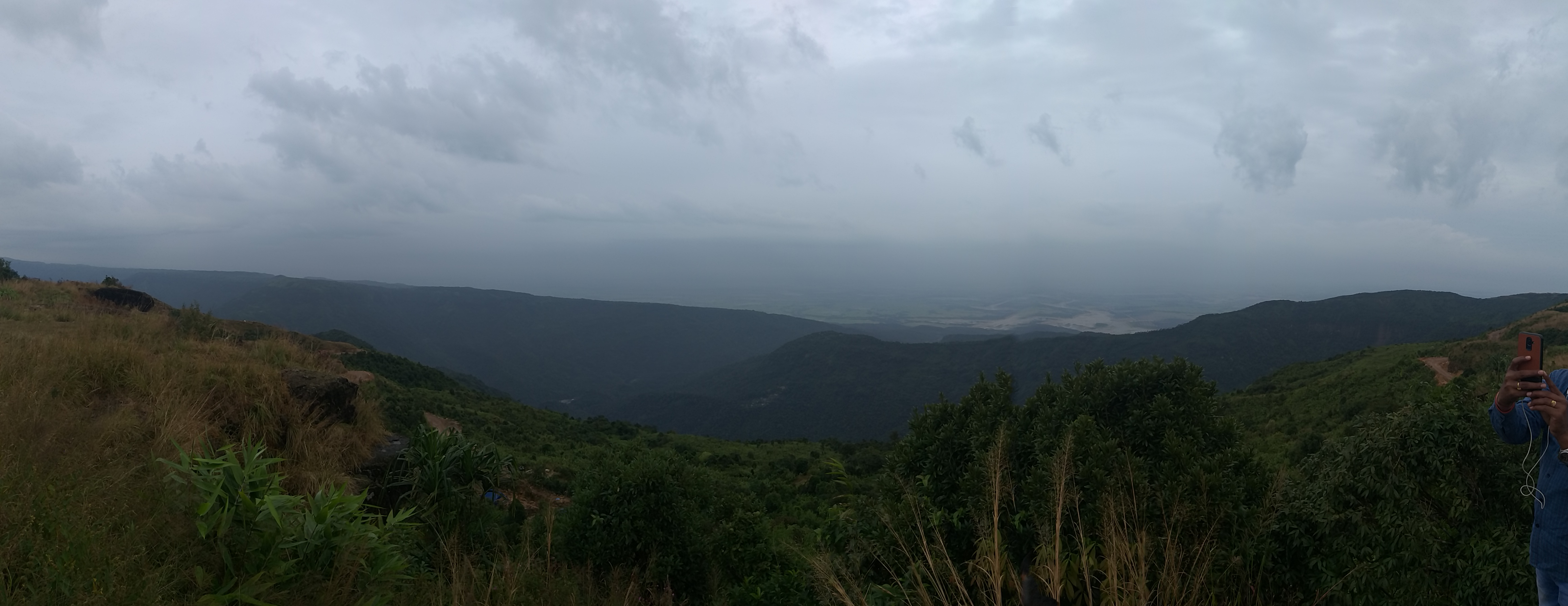 I visited Bangladesh View Point on 2019 November 10